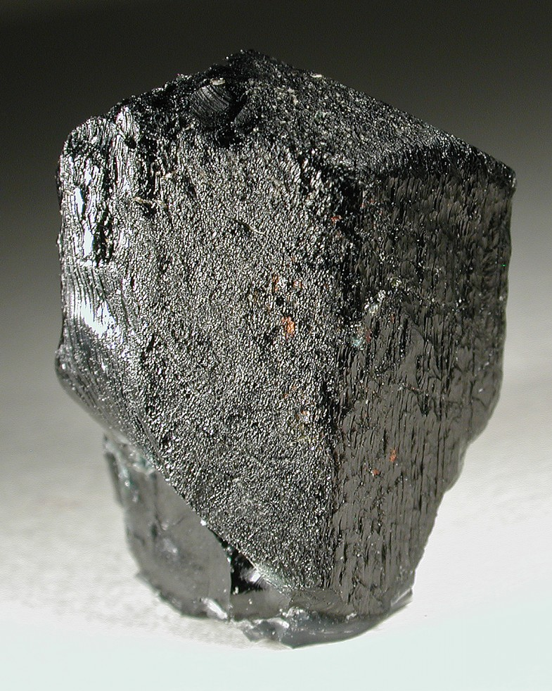 Serendibite (Dimensions: 16 mm x 13 mm x 8 mm) Locality: Mogok, Pyin Oo Lwin District, Mandalay Division, Burma (Myanmar) (Locality at ) Original description: A relatively sharp, vitreous black crystal of serendibite, labeled as from Le Oo, in Mogok Township. Measures 16 x 13 x 8 mm. Child photo shows opposite side. Ex-Ron Pellar Coll. via Dan Weinrich. K. Nash specimen and photo.